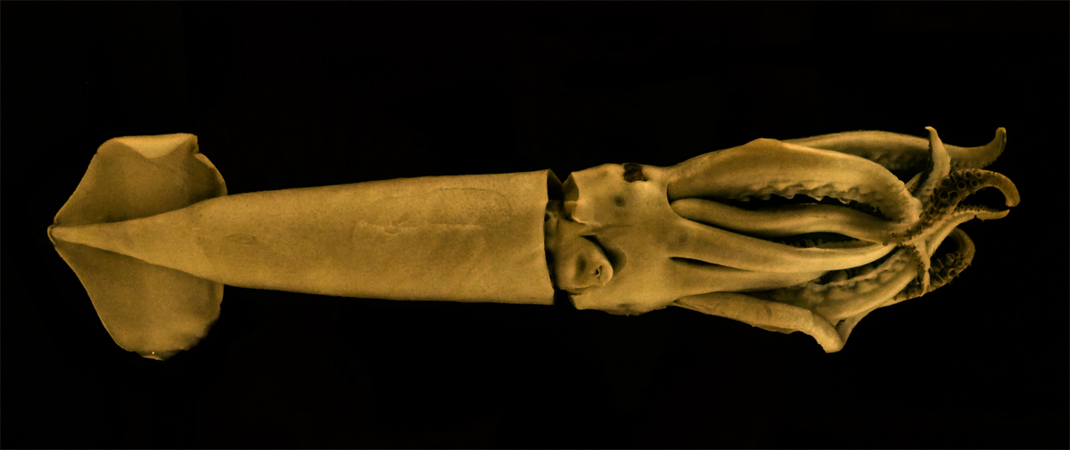 Illex coindetii in the formol